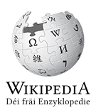 Wikipedia logo 2.0